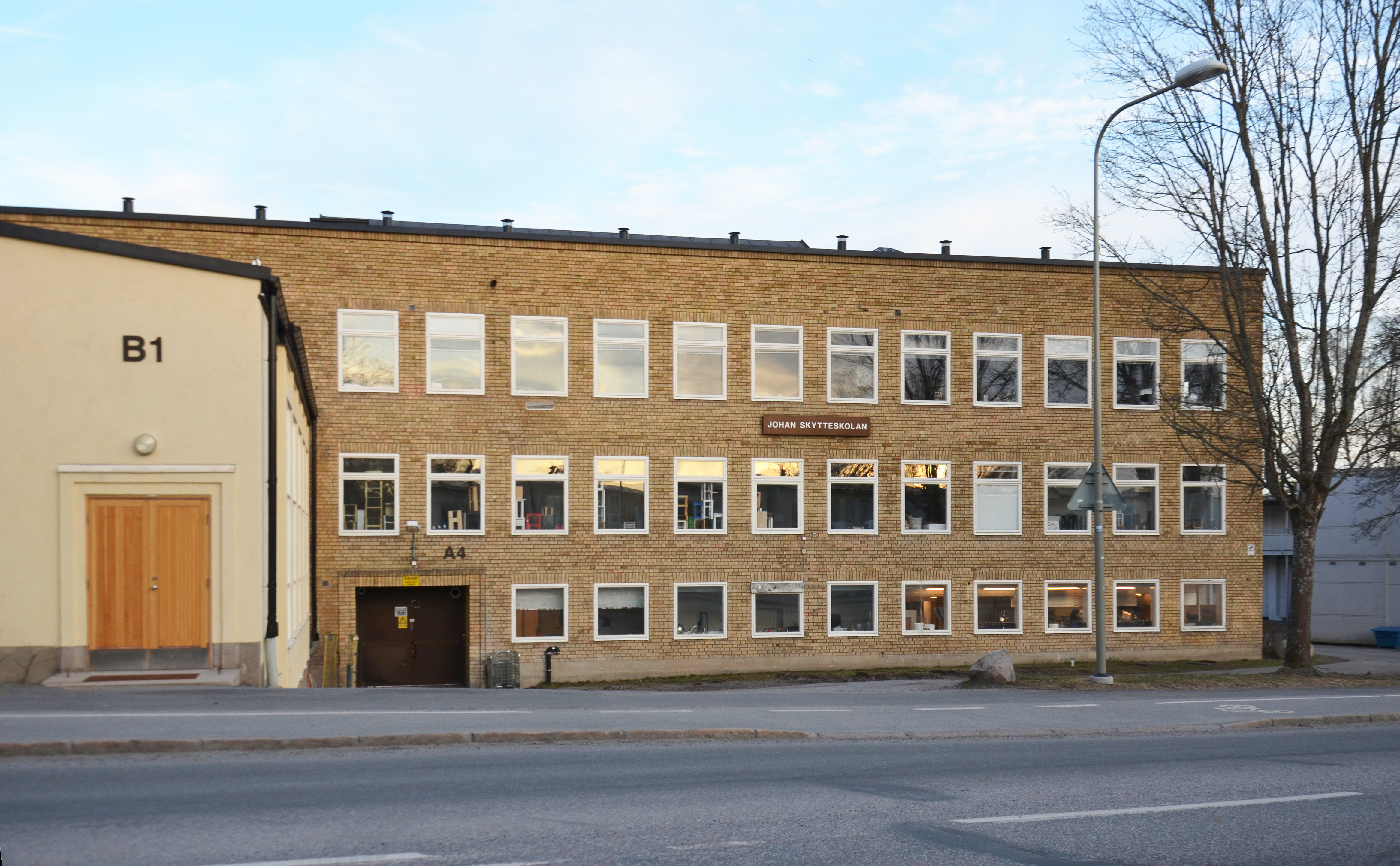 Johan Skytteskolan, Långbrodal, Stockholm